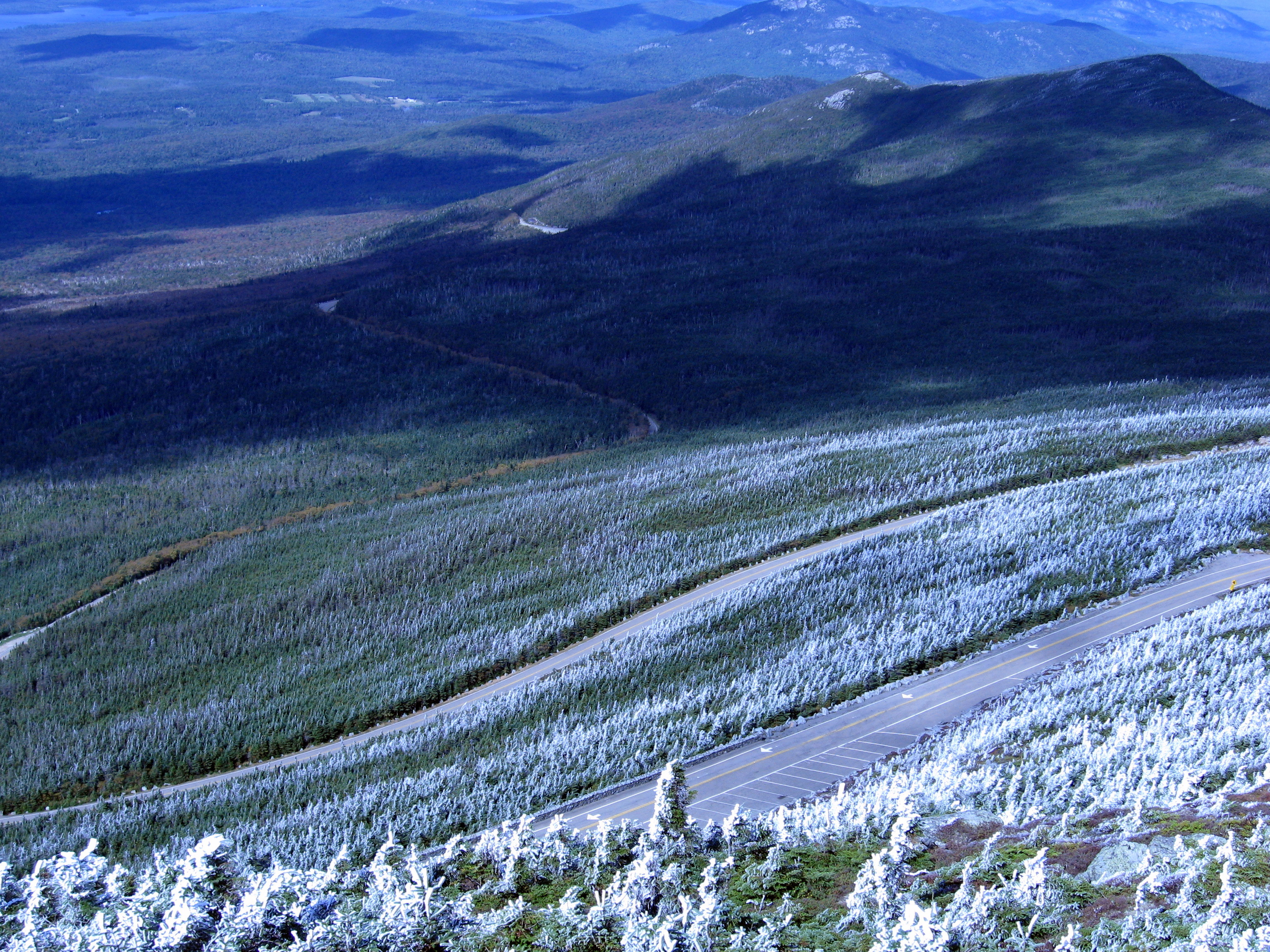 New York State Route 431 viewed from the top of Whiteface Mountain near Wilmington, New York